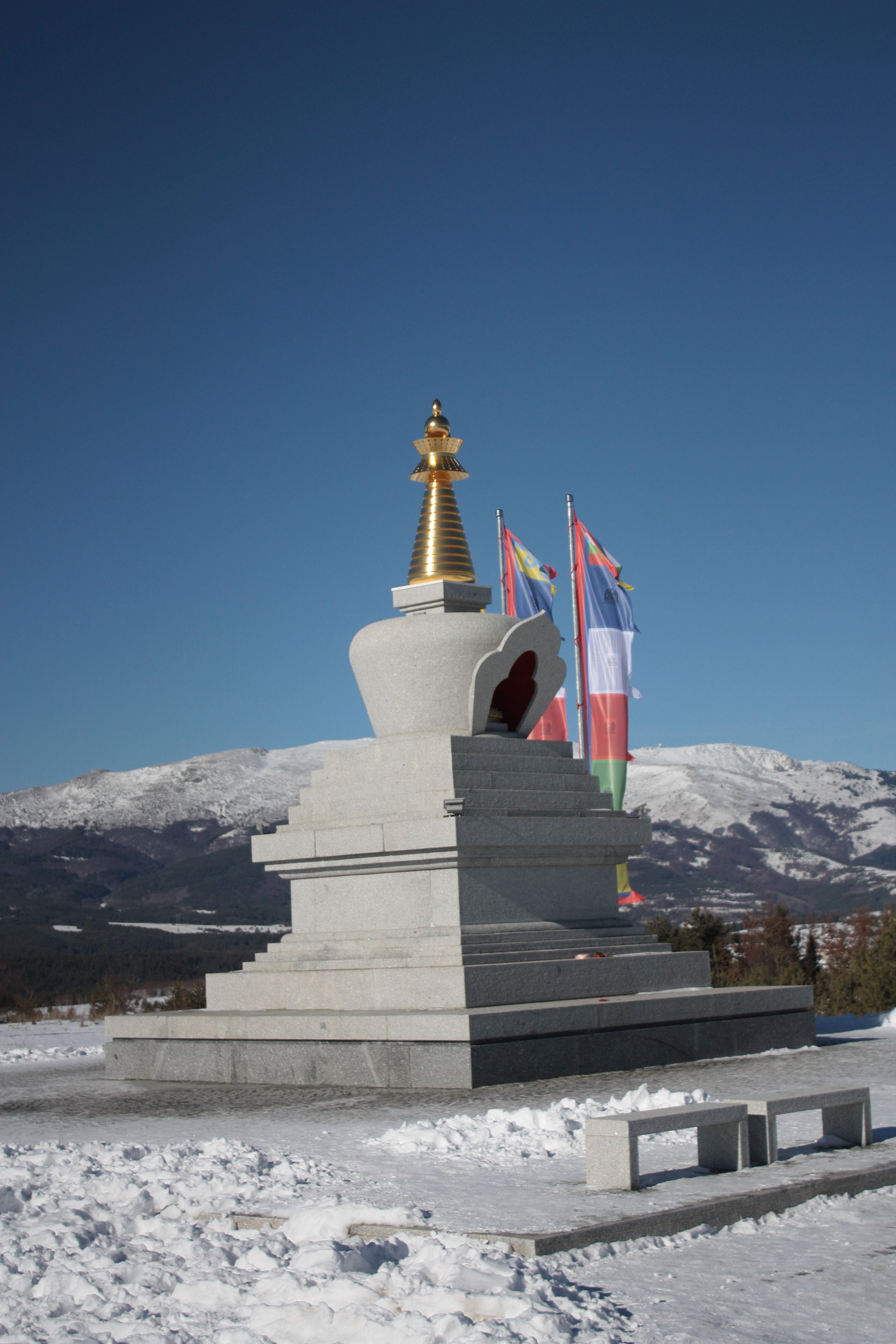 Enlightenment Stupa (Stupa Sofia), Plana, Bulgaria